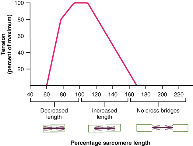 Version 8.25 from the Textbook OpenStax Anatomy and Physiology Published May 18, 2016